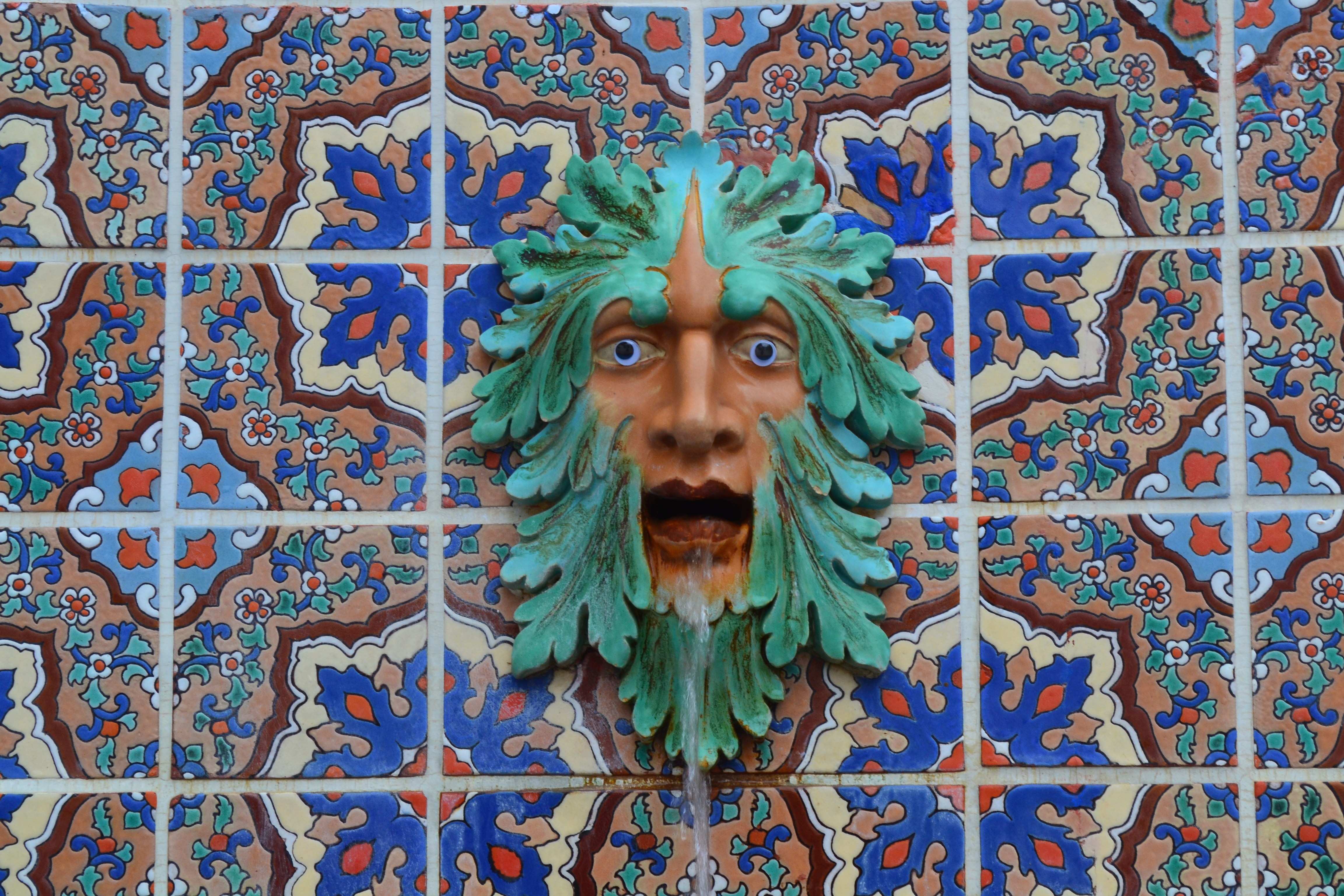 I took this photograph of the Eternal Man, also known at the Green Man, when I was a docent at the Malibu Lagoon Museum. The installation had been recently cleaned.